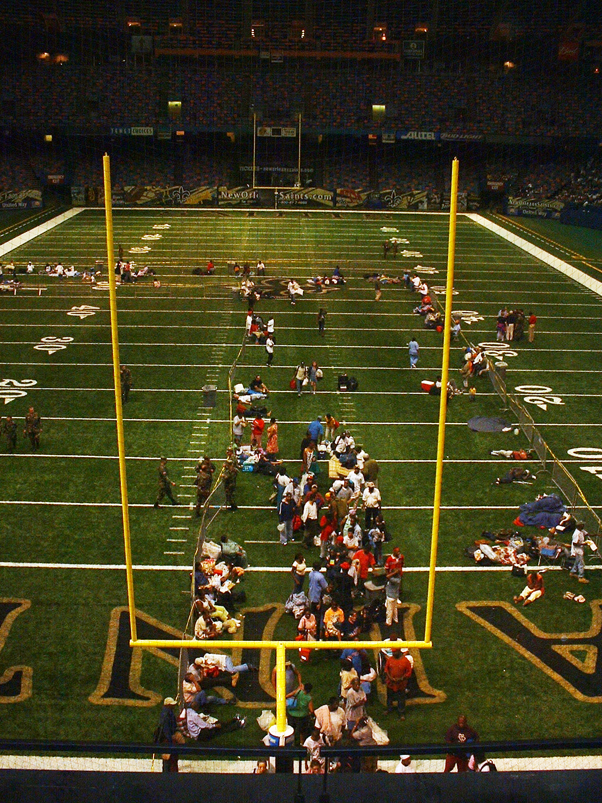 New Orleans, LA, Sunday, August 28, 2005 -- People inside the Superdome which is being used as a shelter during Hurricane Katrina. Marty Bahamonde/FEMA